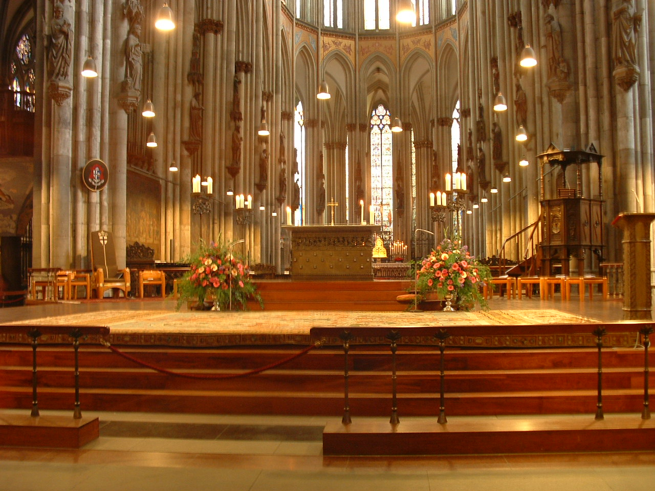 Inside Colgne Cathedral